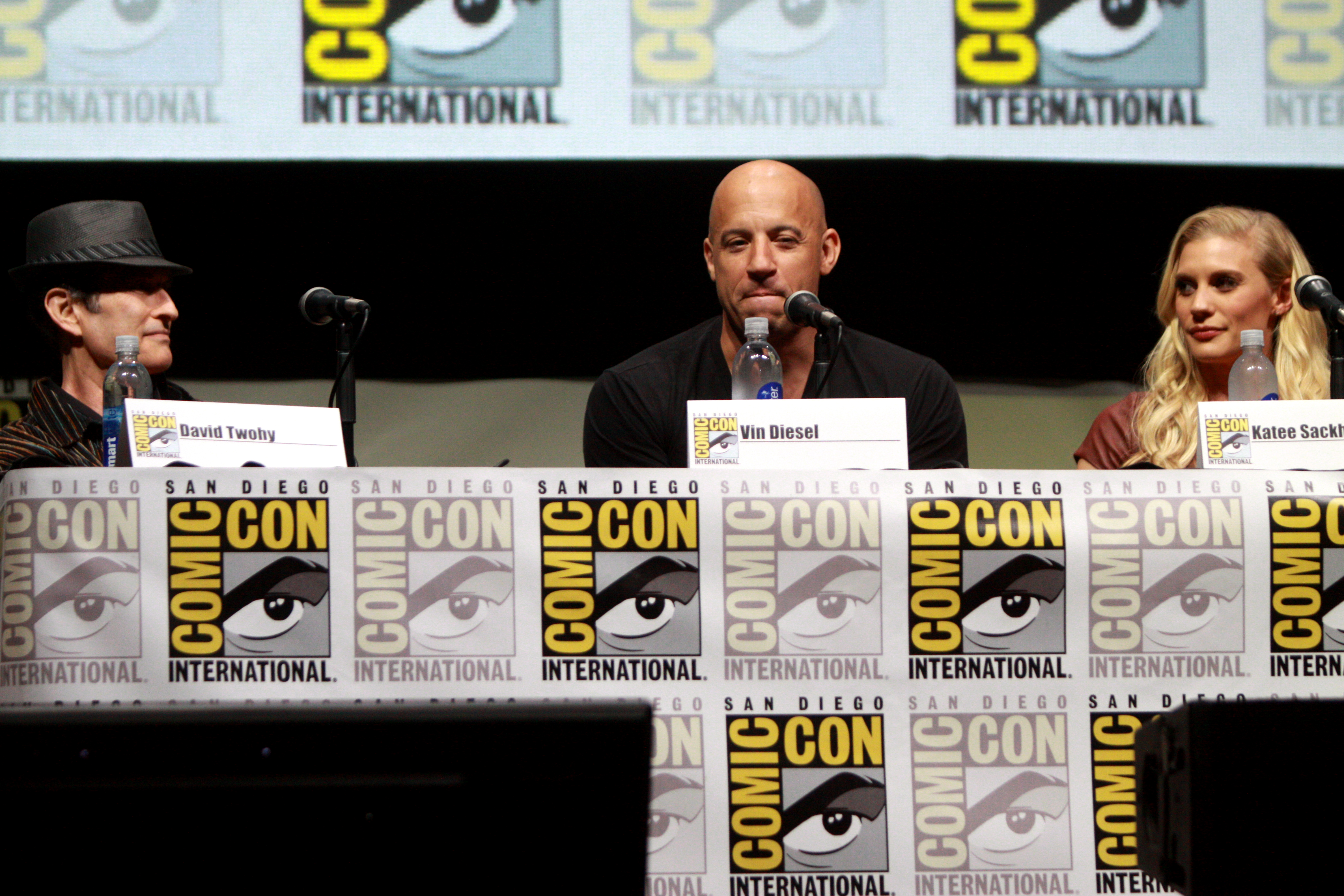 David Twohy, Vin Diesel and Katee Sackhoff speaking at the 2013 San Diego Comic Con International, for "Riddick", at the San Diego Convention Center in San Diego, California.